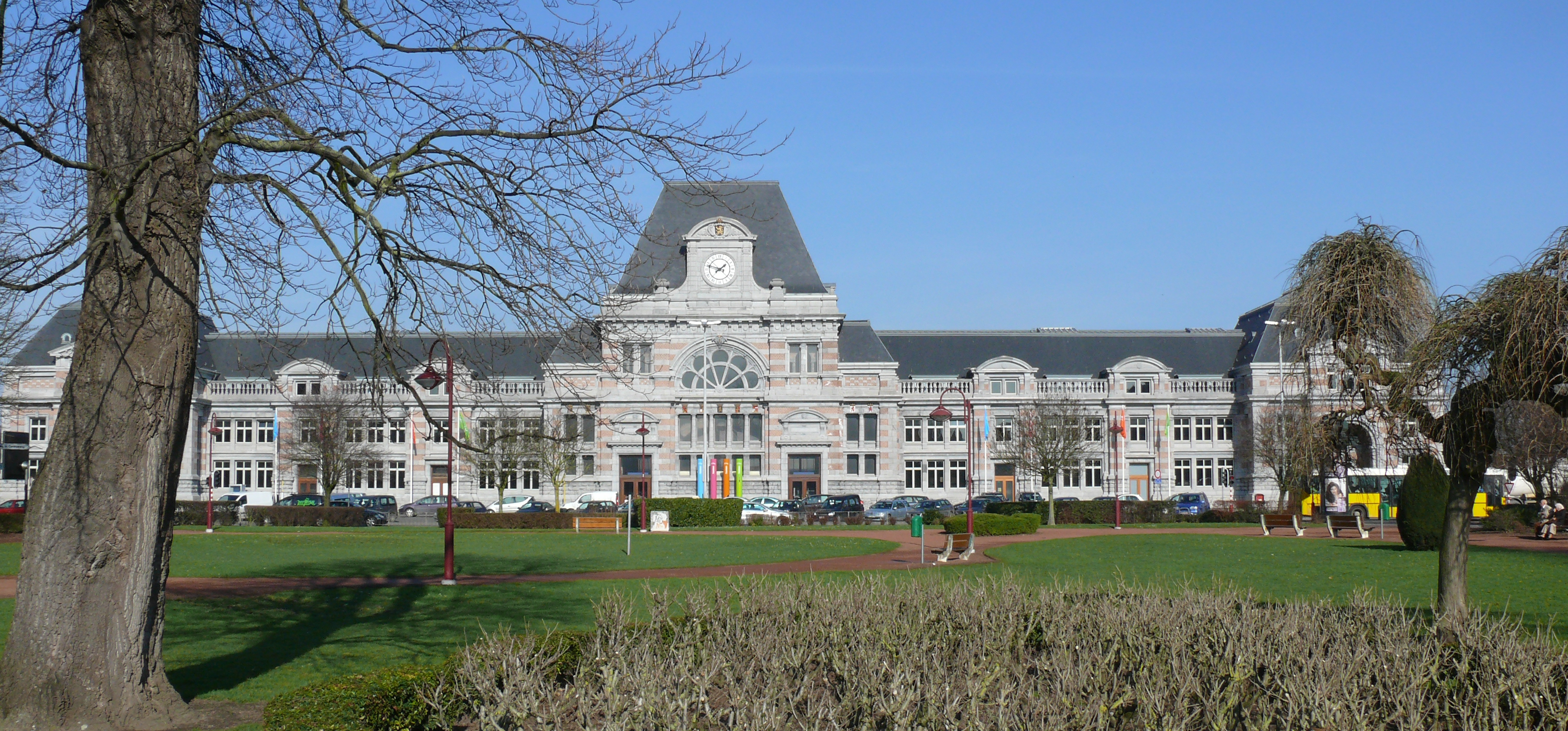 NMBS-SNCB train station at Tournai.